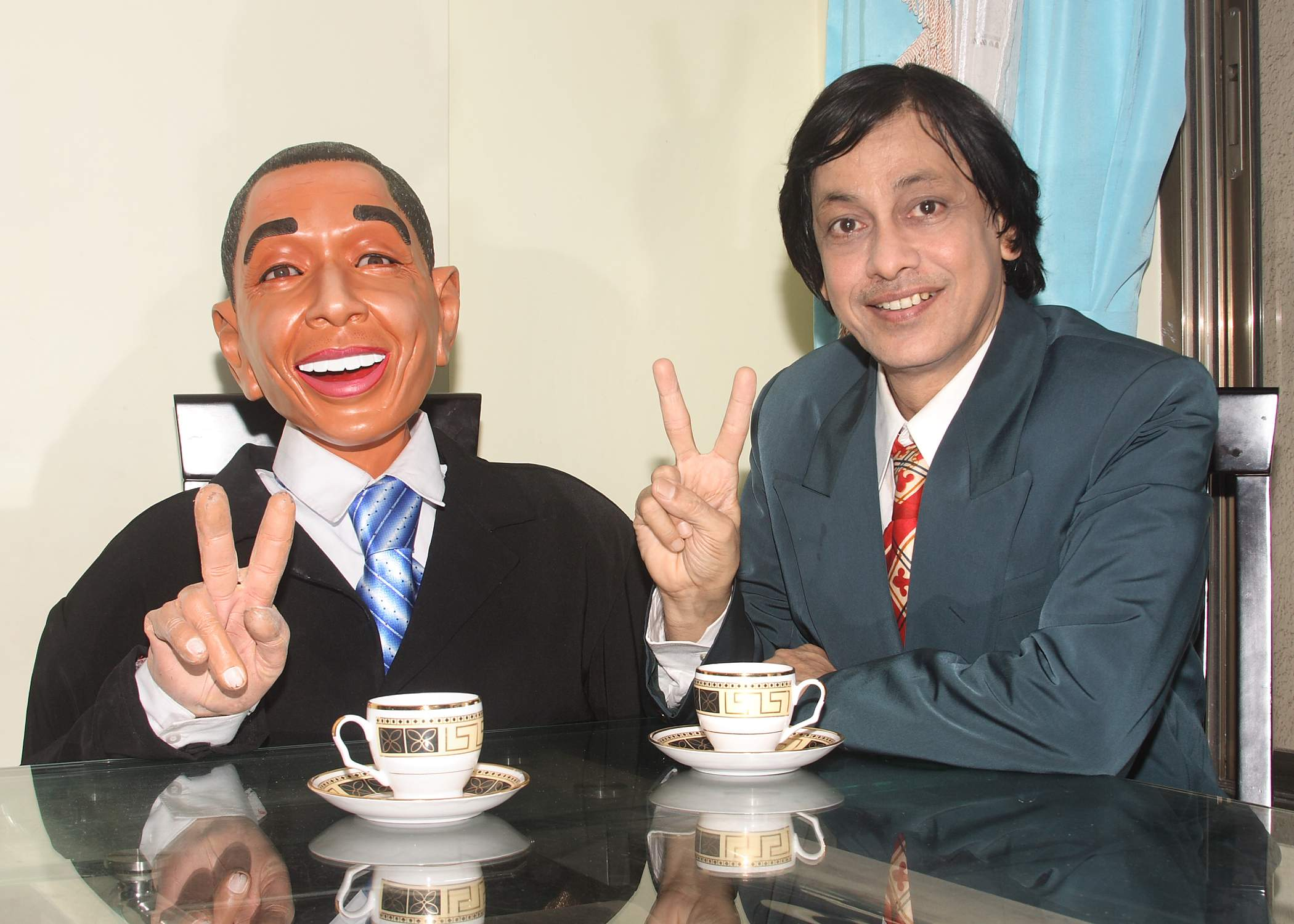 This is a Barack Obama puppet designed by Ramdas Padhye.